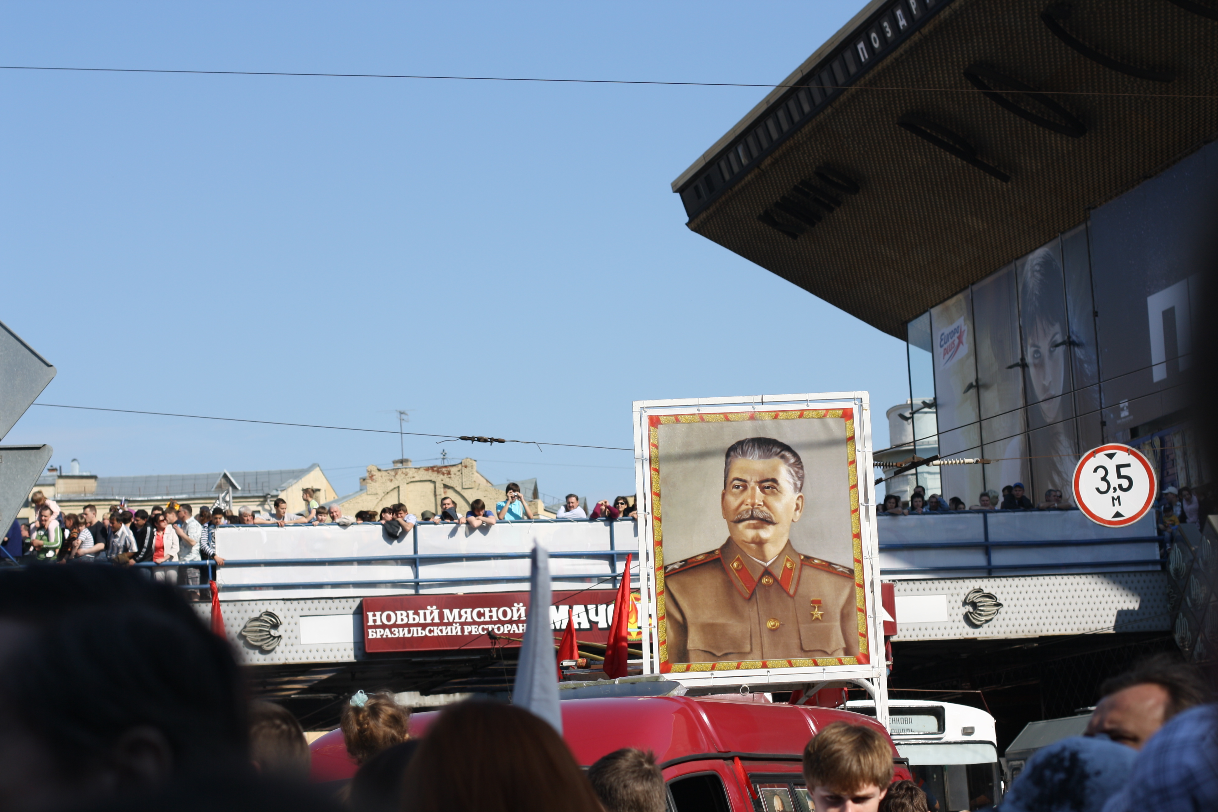 Picture of Stalin in Russian Parade 2010